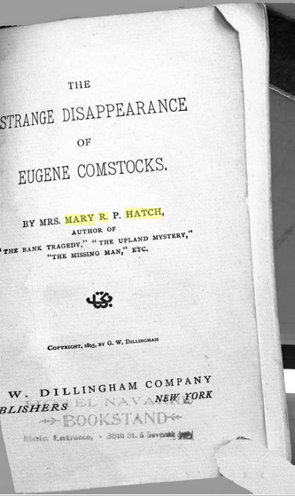 "The Strange Disappearance of Eugene Comstocks", by Mary R. P. Hatch